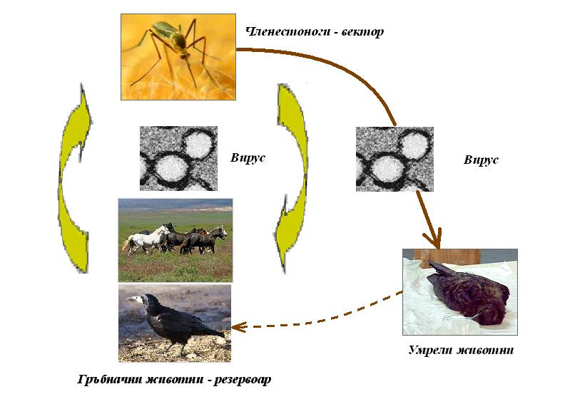 Mechanism of transmssion of West Nile Virus